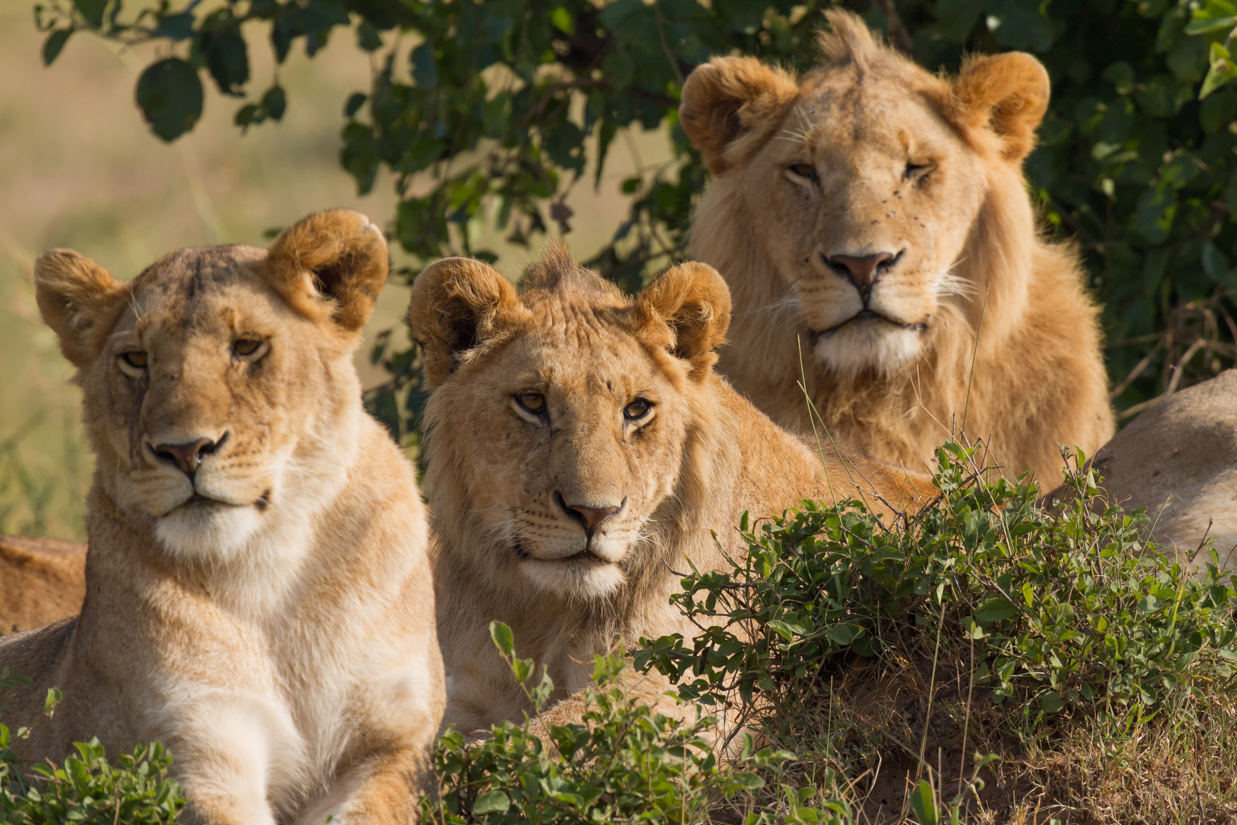 Portrait of three lions (one female and two males) of a pride, all resting at morning time. Taken in Maasai Mara, southwest Kenya.